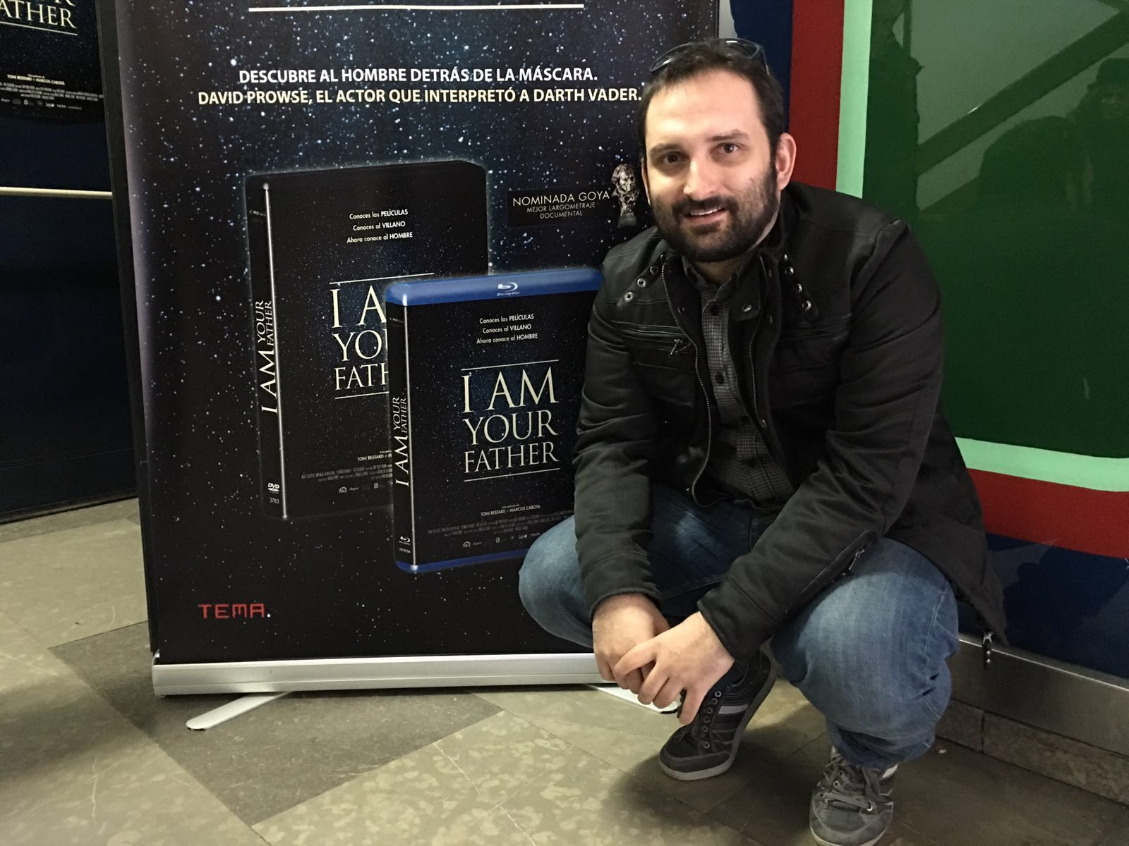 Marcos Cabotá en la presentación del DVD/Blu-Ray de I Am Your Father